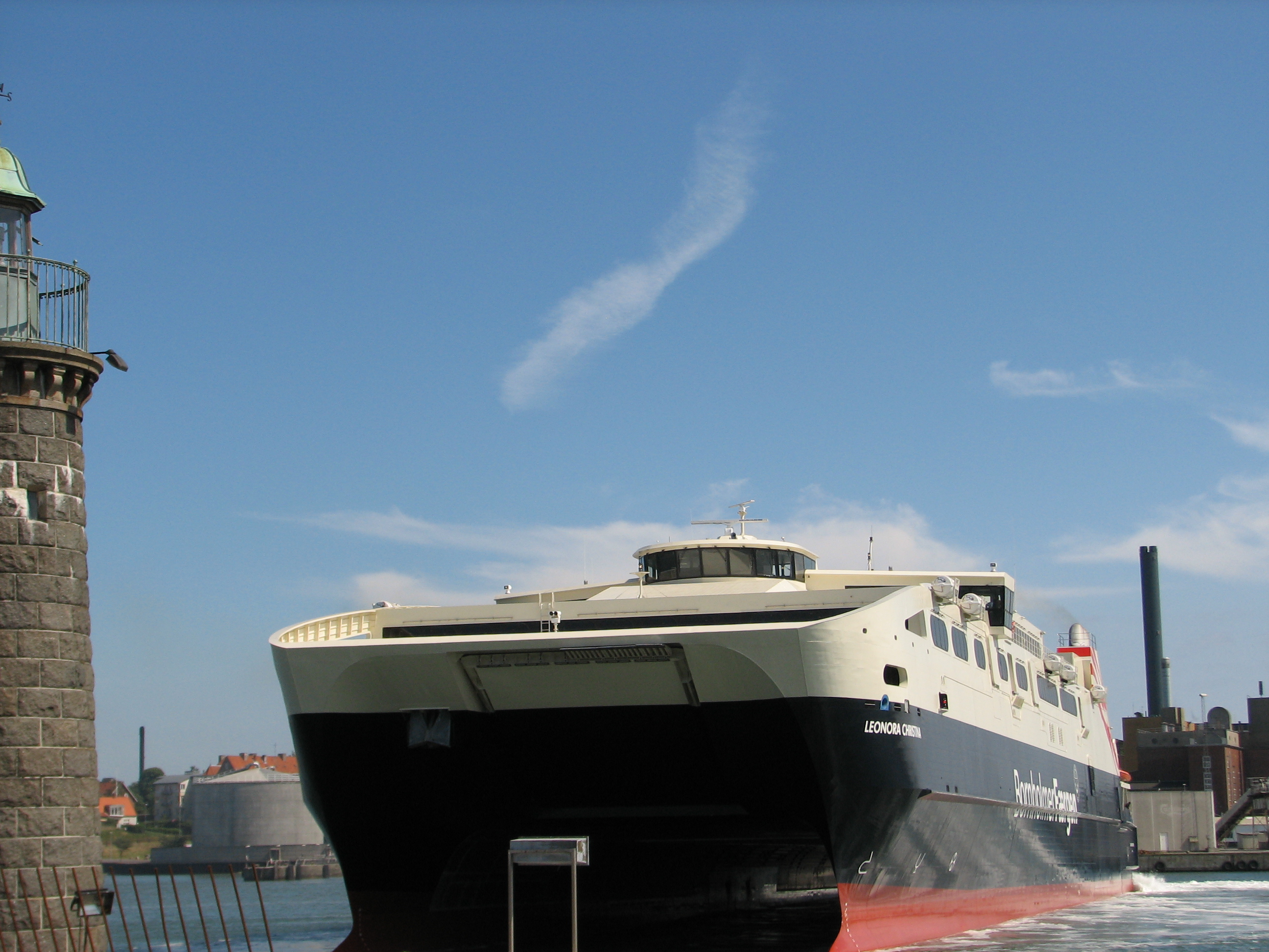 Leonora Christina on the way out of the harbour of Rønne